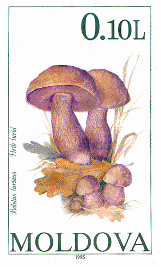 Boletus. Boletus luridus